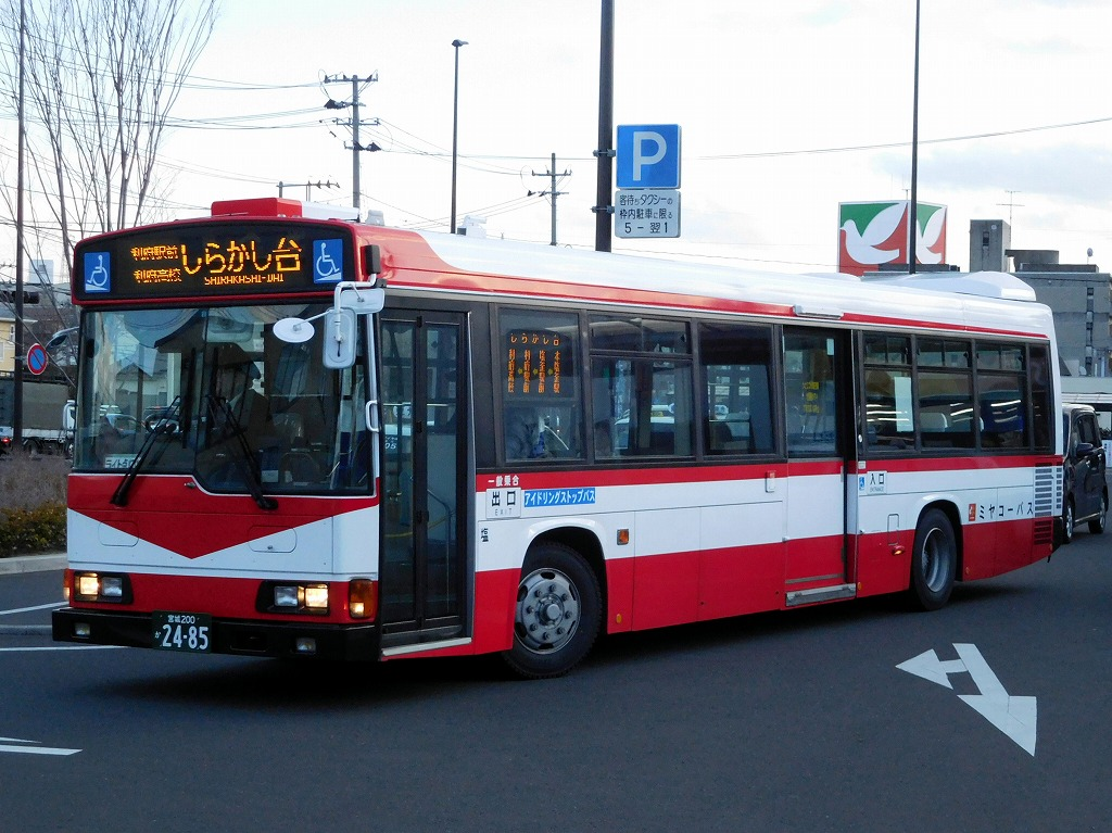 Miyakoh bus Hino Rainbow HR (KL-HR1JNEE)